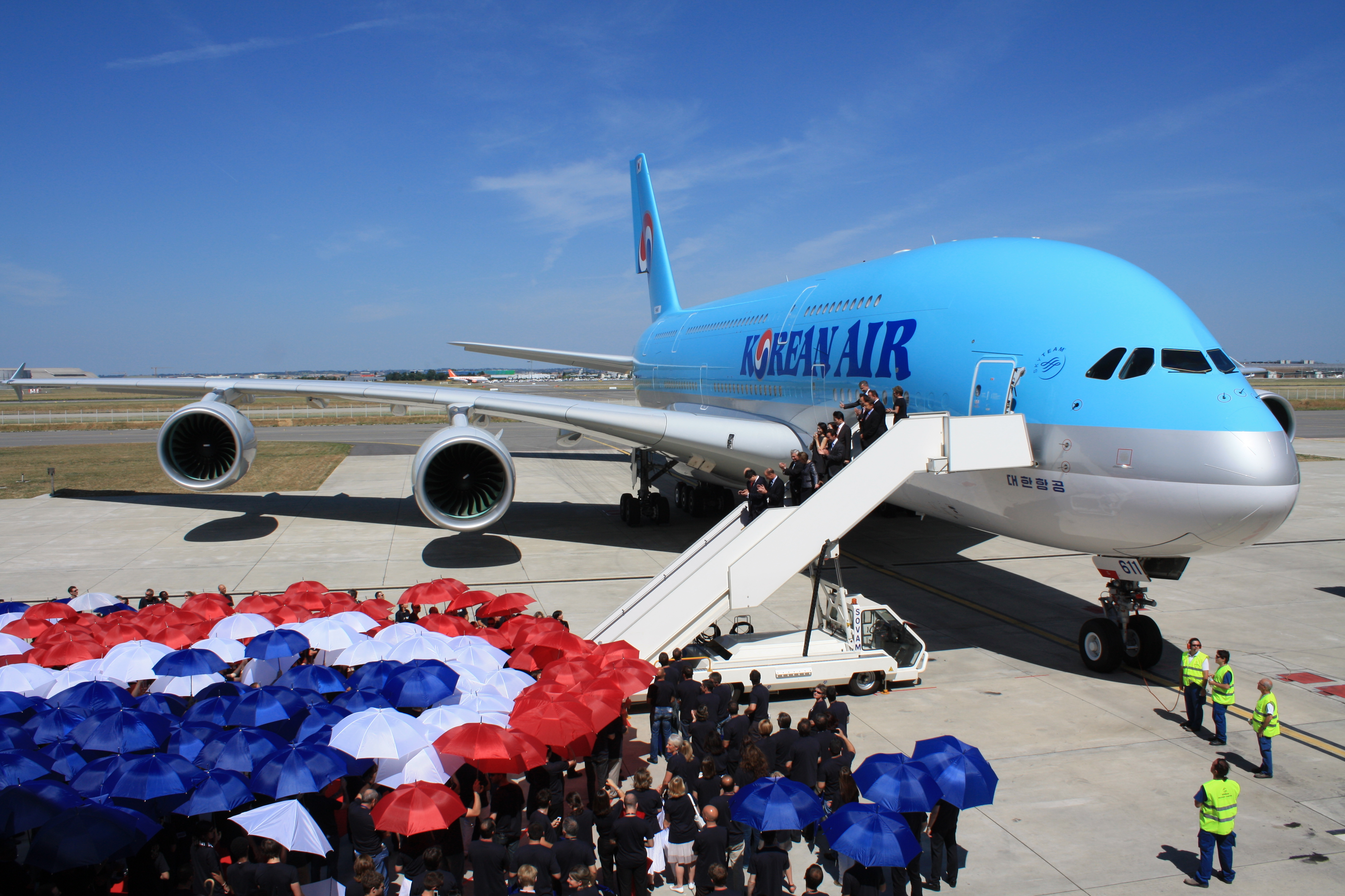 Korean Air takes delivery of its first A380 in Tolouse.